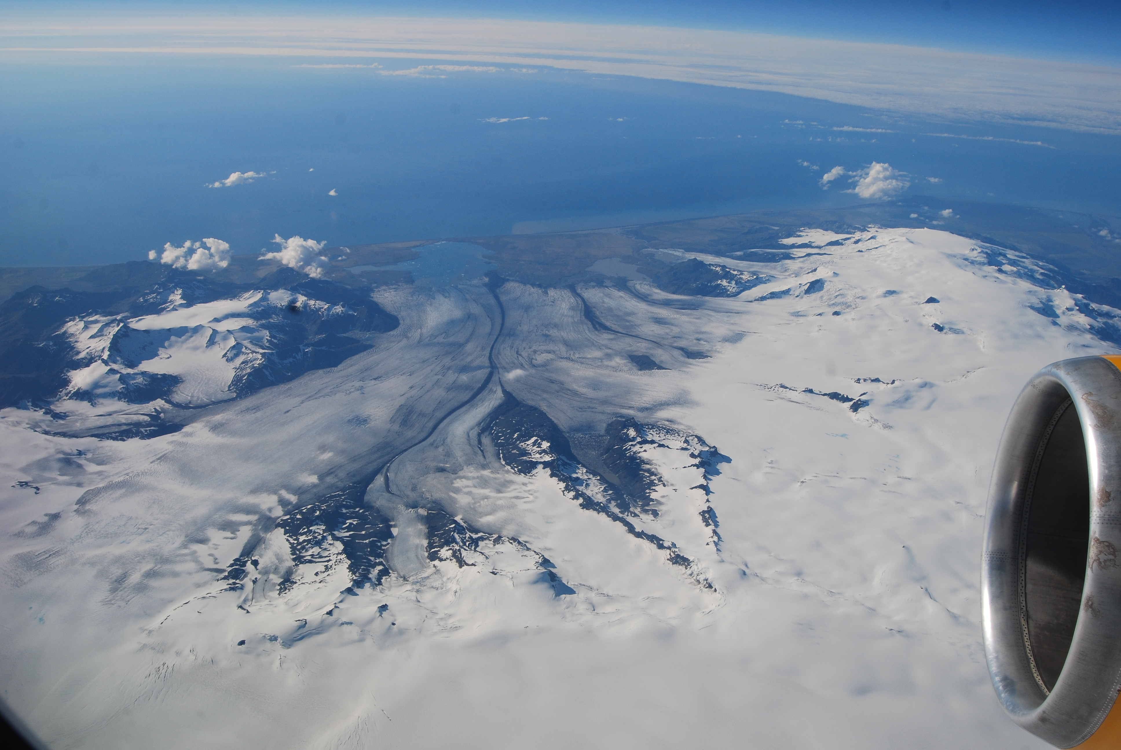 Aerial photograph of Vatnajökull from plane